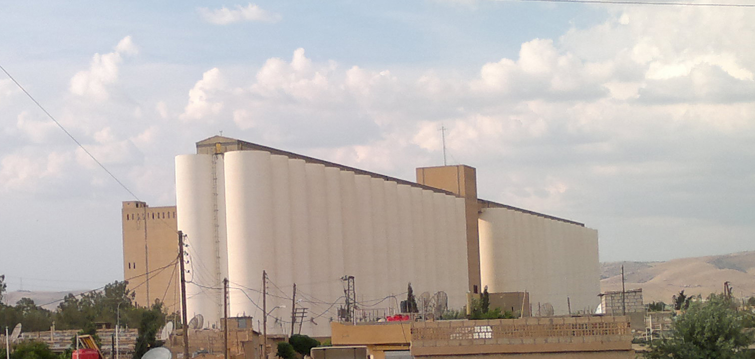 Granaries in Qamishli, Syria.